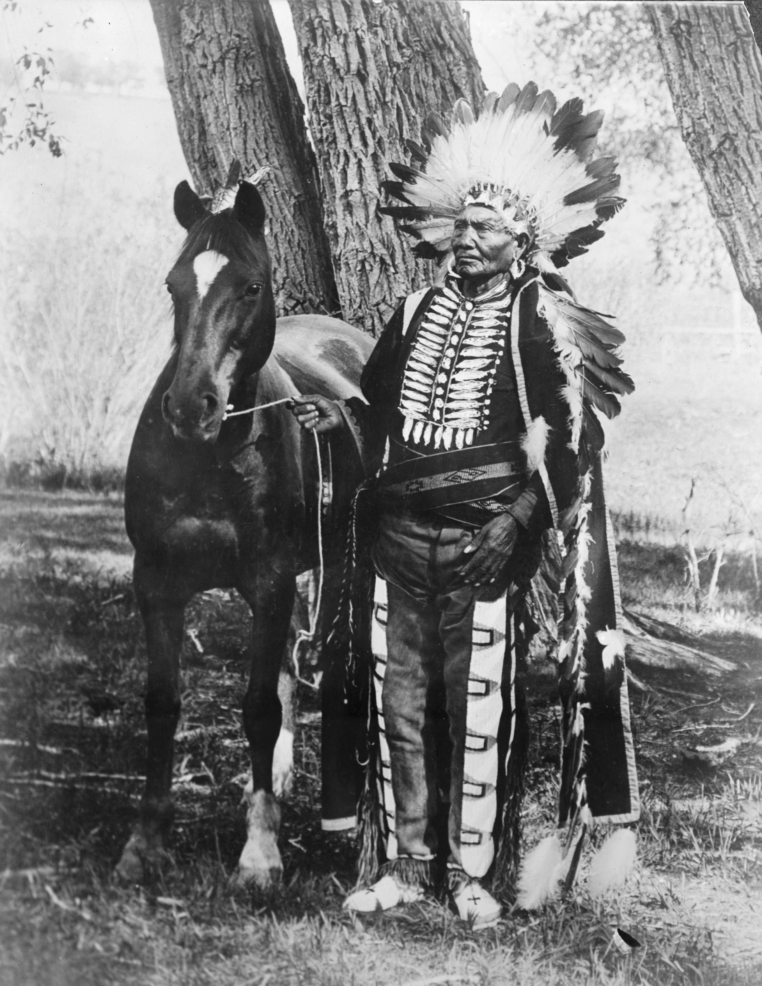 Chief Ignacio of the Ute tribe of Native Americans, with horse